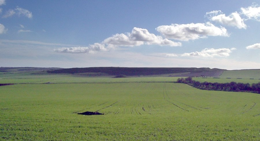 Selectively contrast-adjusted photo of Maiden Castle, Dorset. Used filters in Gimp to raise gamma of foreground.